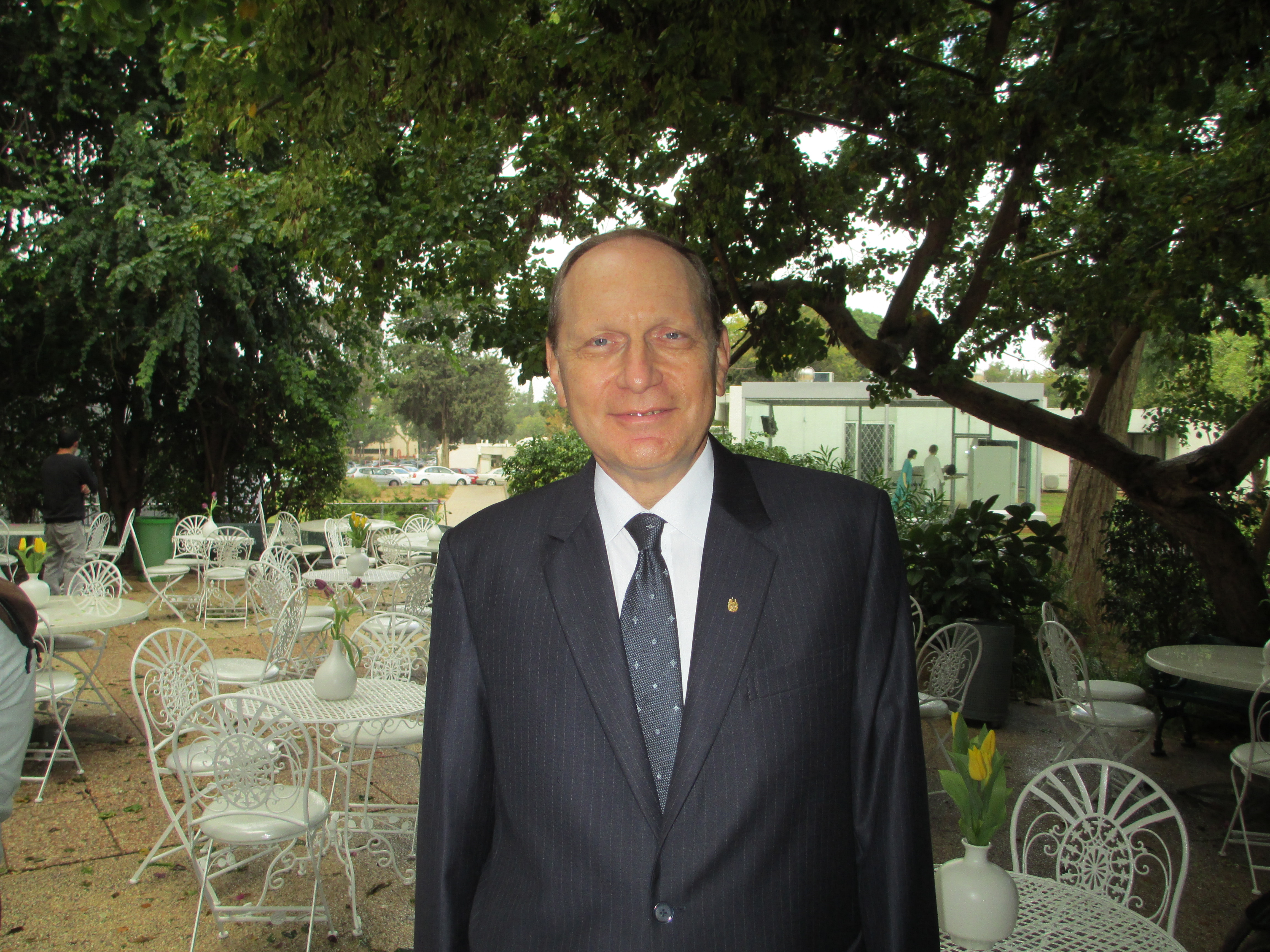 Dr. Leonid Eidelman, chairman of Israel Medical Association ד"ר ליאוניד אידלמן, יו"ר הר"י